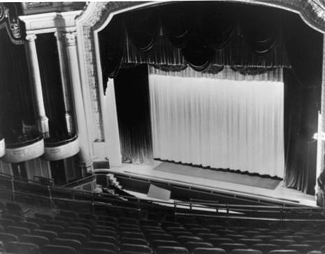 Auditorium of the Capitol Cinema in Ottawa, Canada. November 1943.